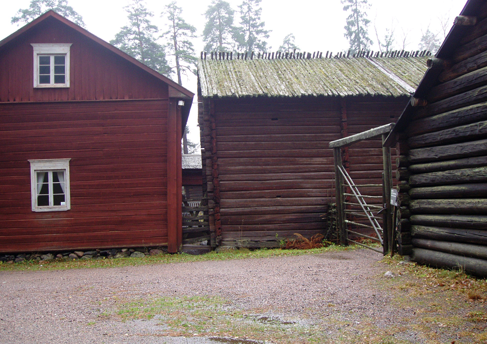 Antti farmstead, Seurasaari Open Air Museum, Helsinki. The farm buildings have been transferred to the museum from Ostrobothnia, west Finland.